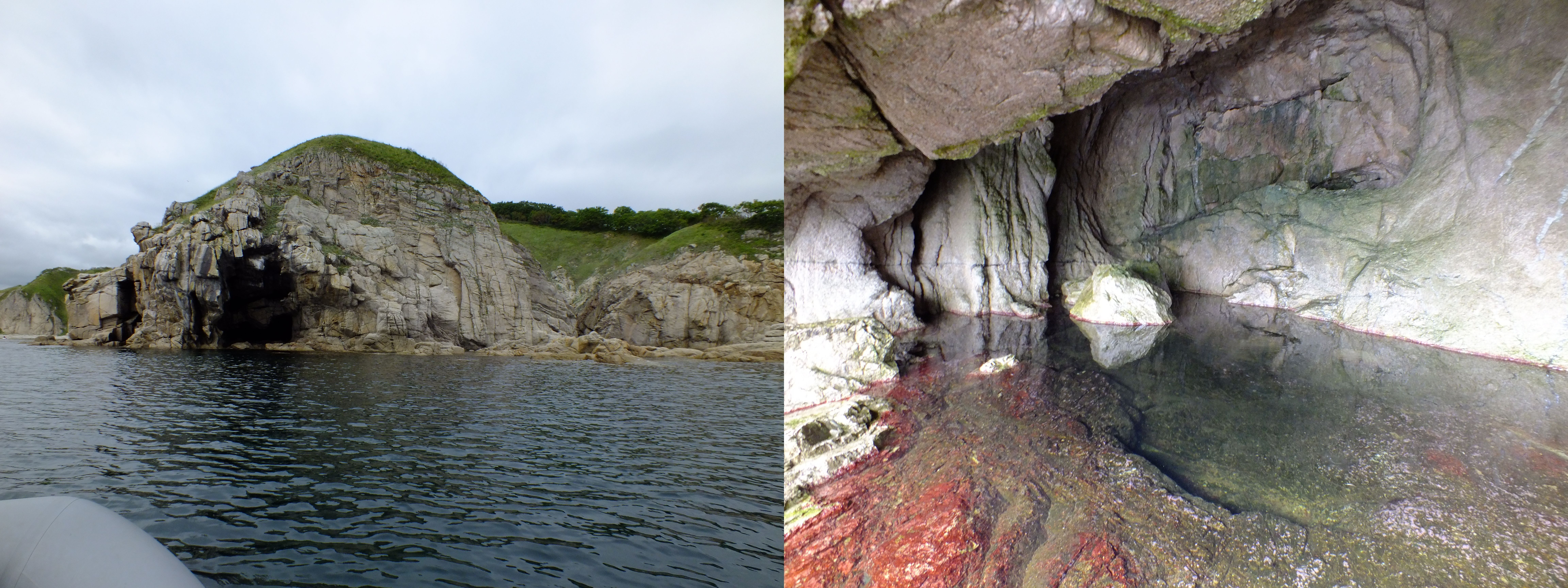 Vladimir Bay